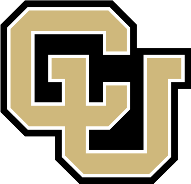 Alternate logo for the Colorado Buffaloes.